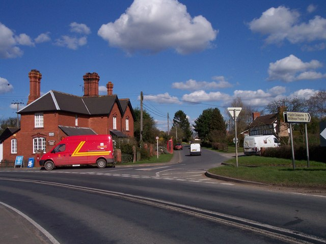 Burley Gate. Small village formed around the crossroads including a post office & stores on the corner.